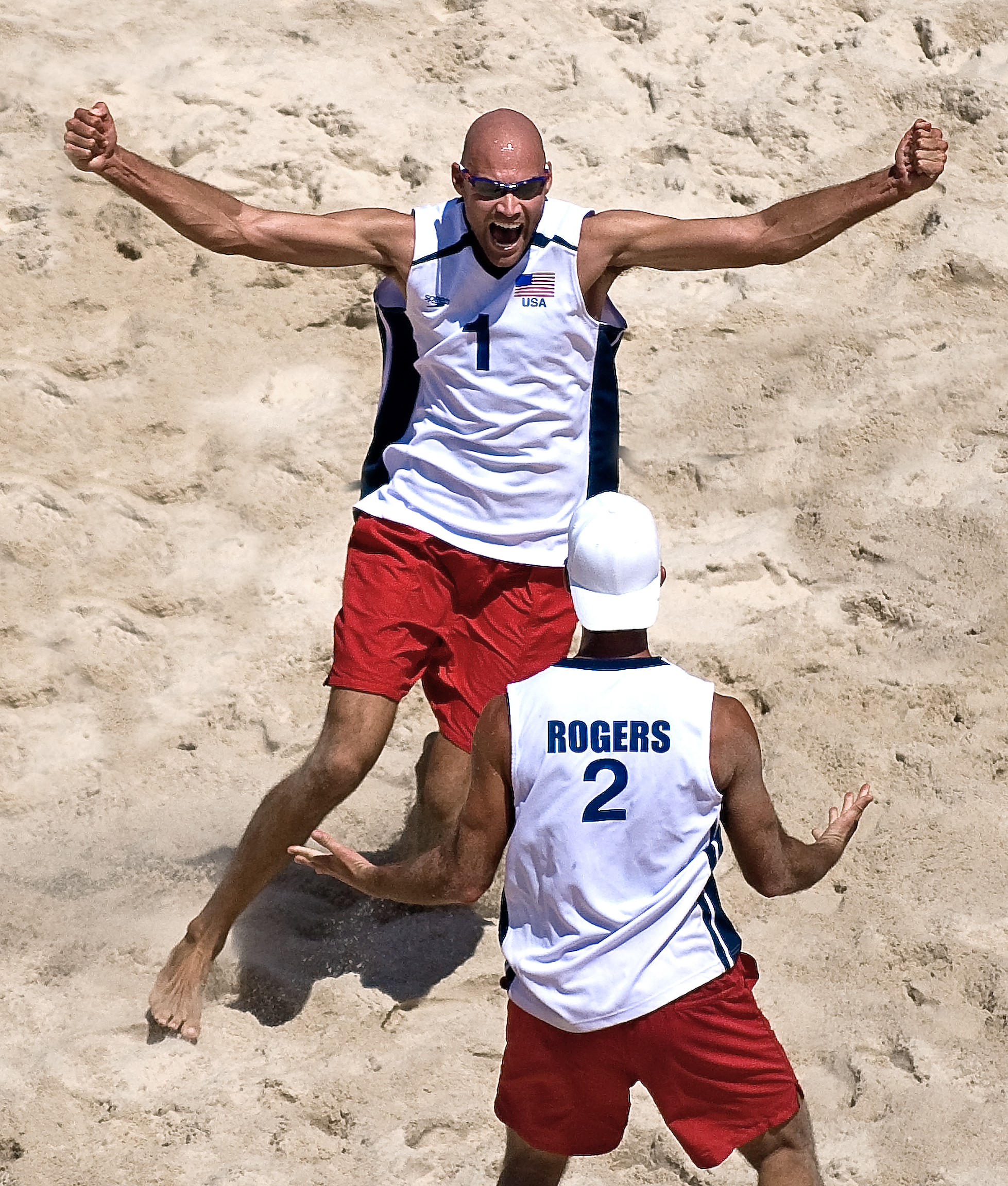 Todd Rogers and Phil Dalhausser celebrate after winning the final point in the gold medal match against the Brazilian team (who played well, too) at the Beijing Olympics. Actually, this was the only 3-set match that we saw in 3 solid days of Olympic Beach Volleyball (Chaoyang Park Stadium). BTW, this venue was the most fun sport that we saw in the whole Olympics (and we saw 10 or so events).